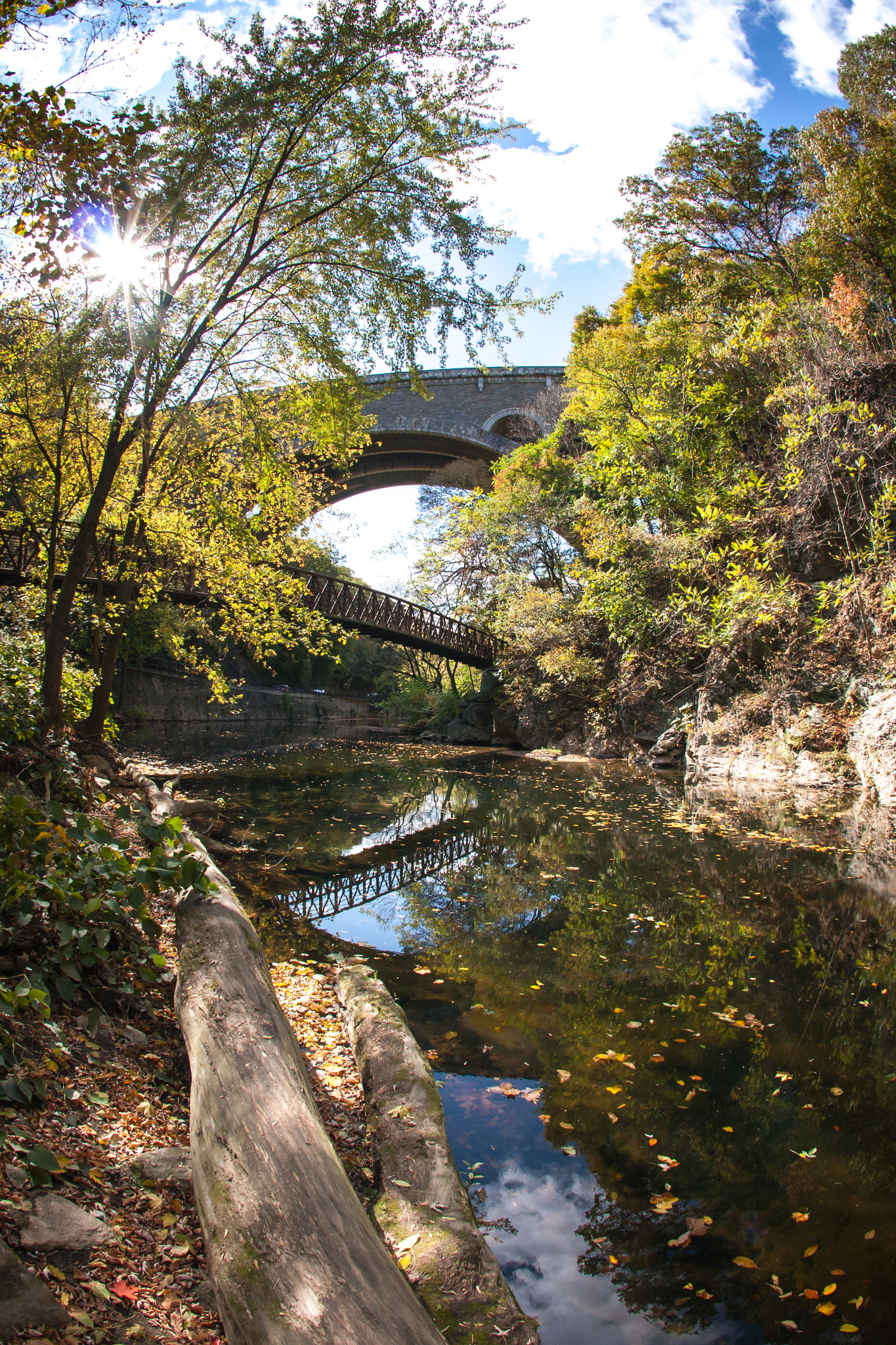 500px provided description: wissahickon park, philadelphia [#park ,#landscape ,#water ,#reflection ,#bridge ,#philadelphia ,#pa ,#wissahickon]